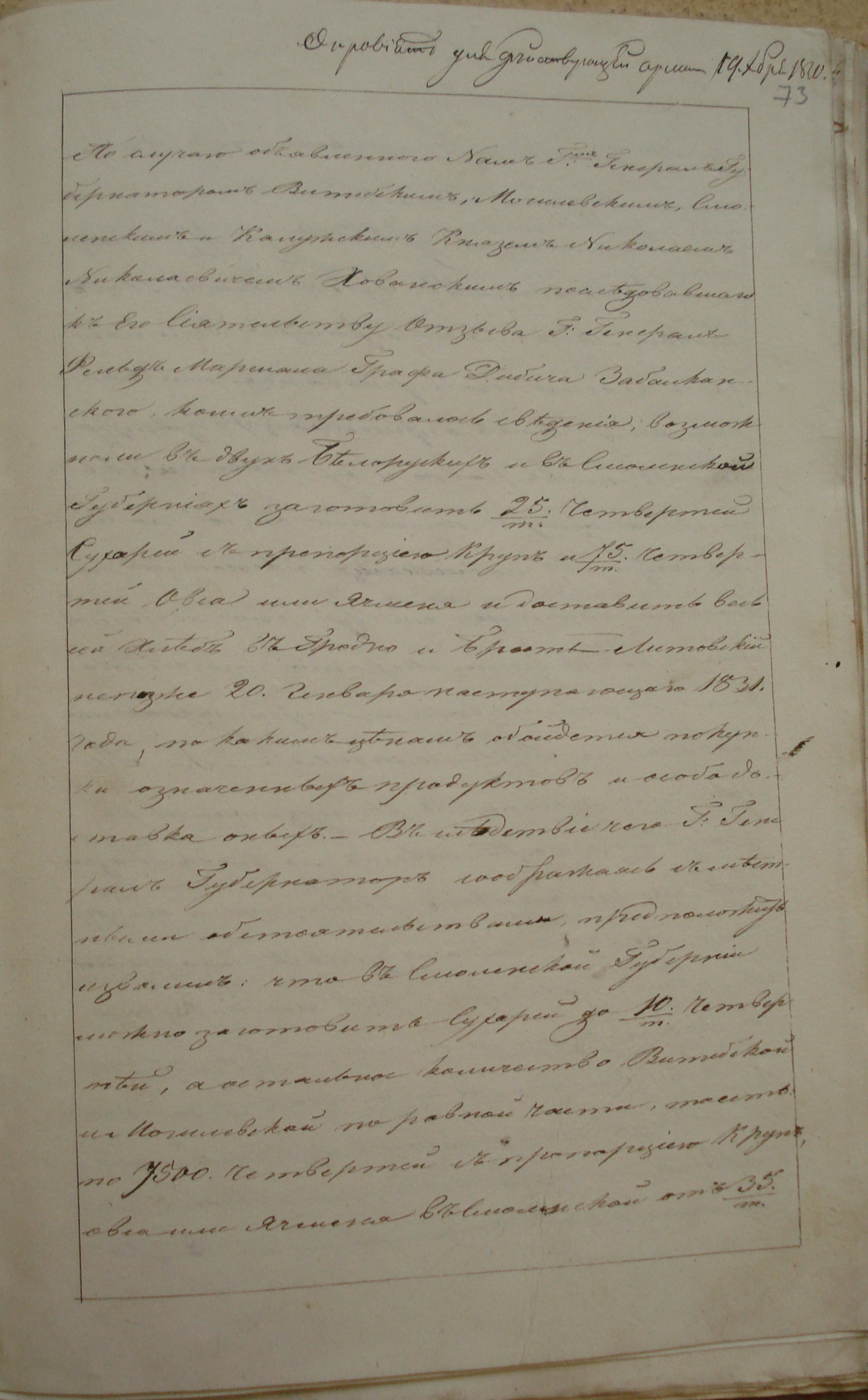 document from the office of Vitebsk region marshal of nobility, Russian empire, 1830 AD